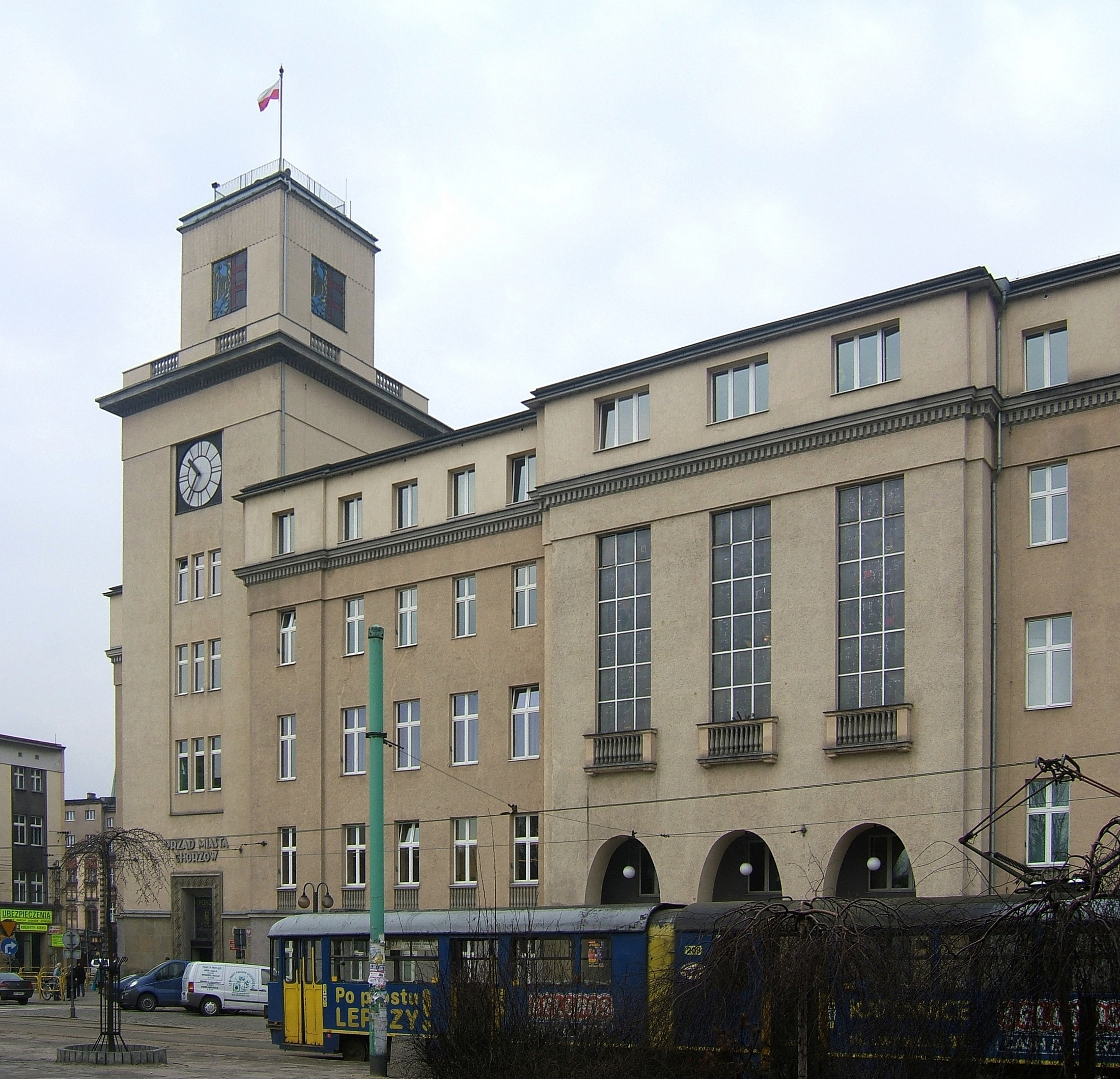 Town hall in Chorzów.